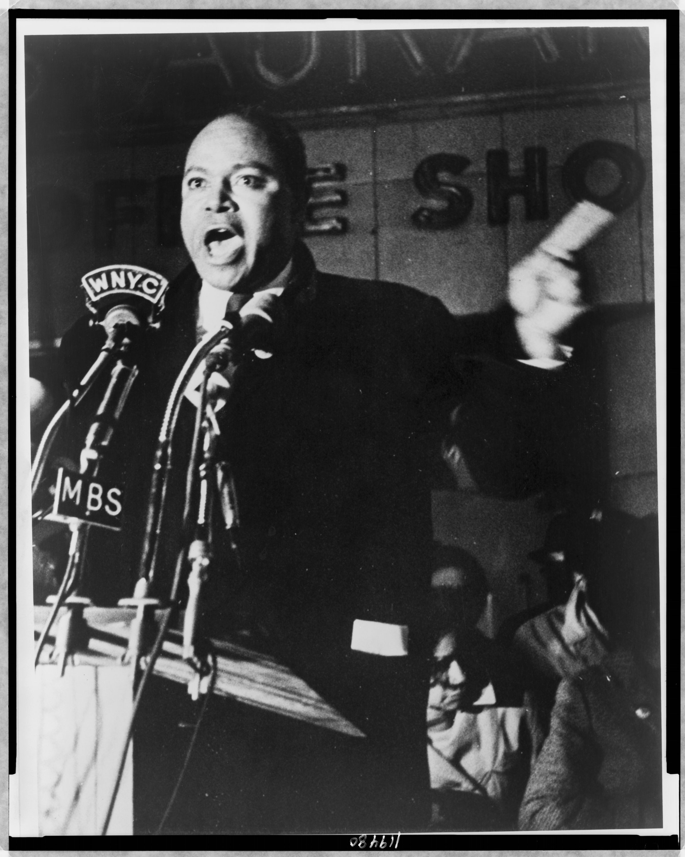 James Farmer, three-quarter length portrait, speaking before microphones outside Hotel Theresa